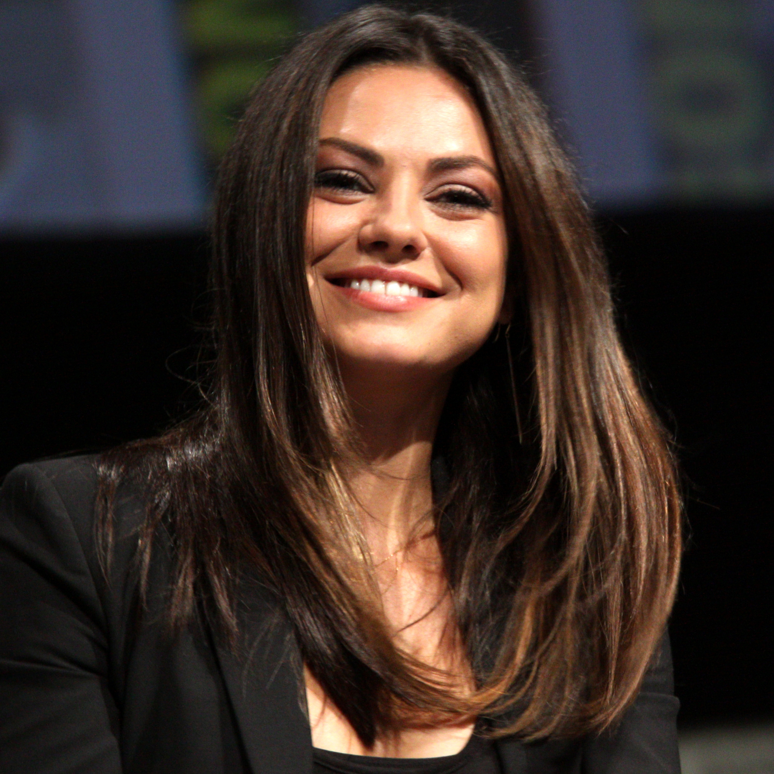 Mila Kunis speaking at the 2012 San Diego Comic-Con International in San Diego, California.